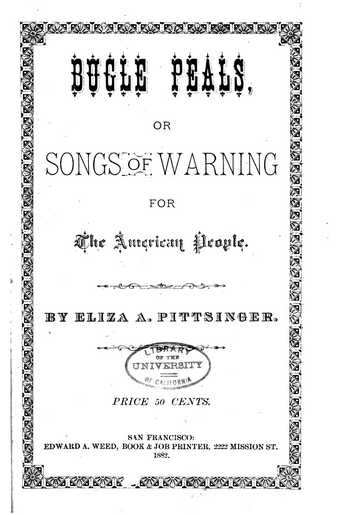 Bugle Peals, Or Songs of Warning for the America People, By Eliza A. Pittsinger